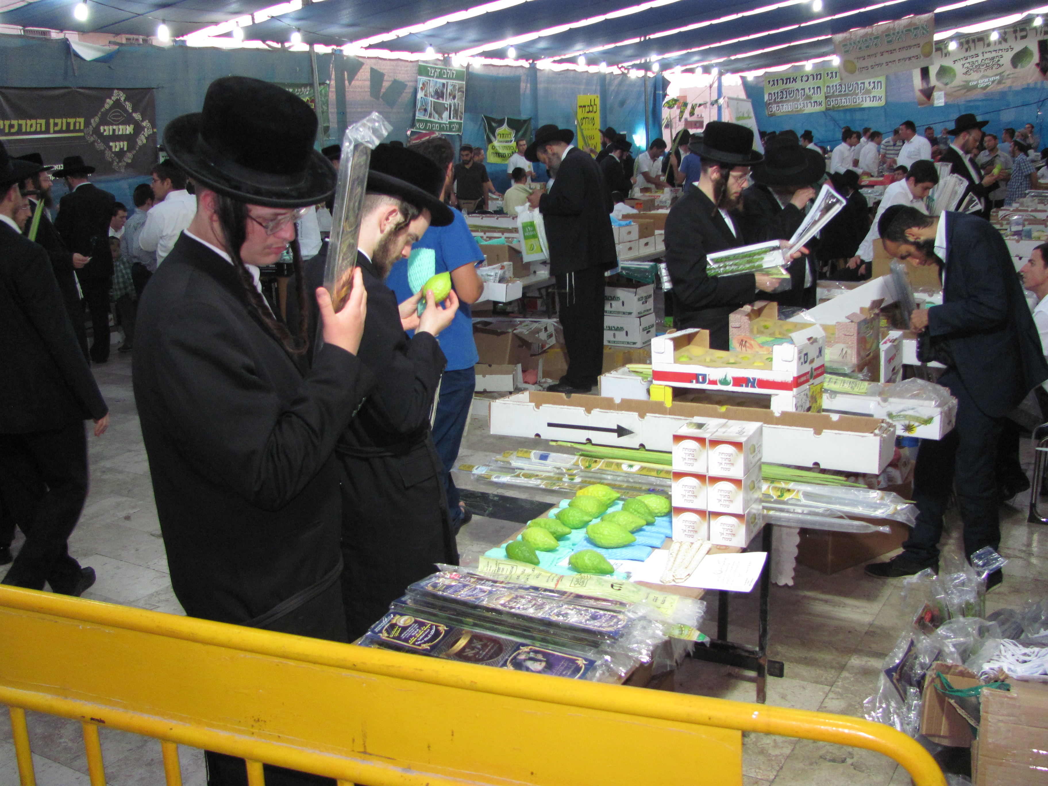 "Arba Minim Shuk" (market for buying the Four Species of Sukkot) at Rav Shefa Mall, Jerusalem, Israel, 2014.